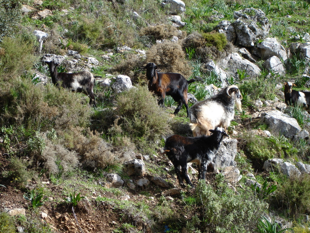 Capras in Benaocaz, Grazalema Natural Park (Andalusia, Spain)